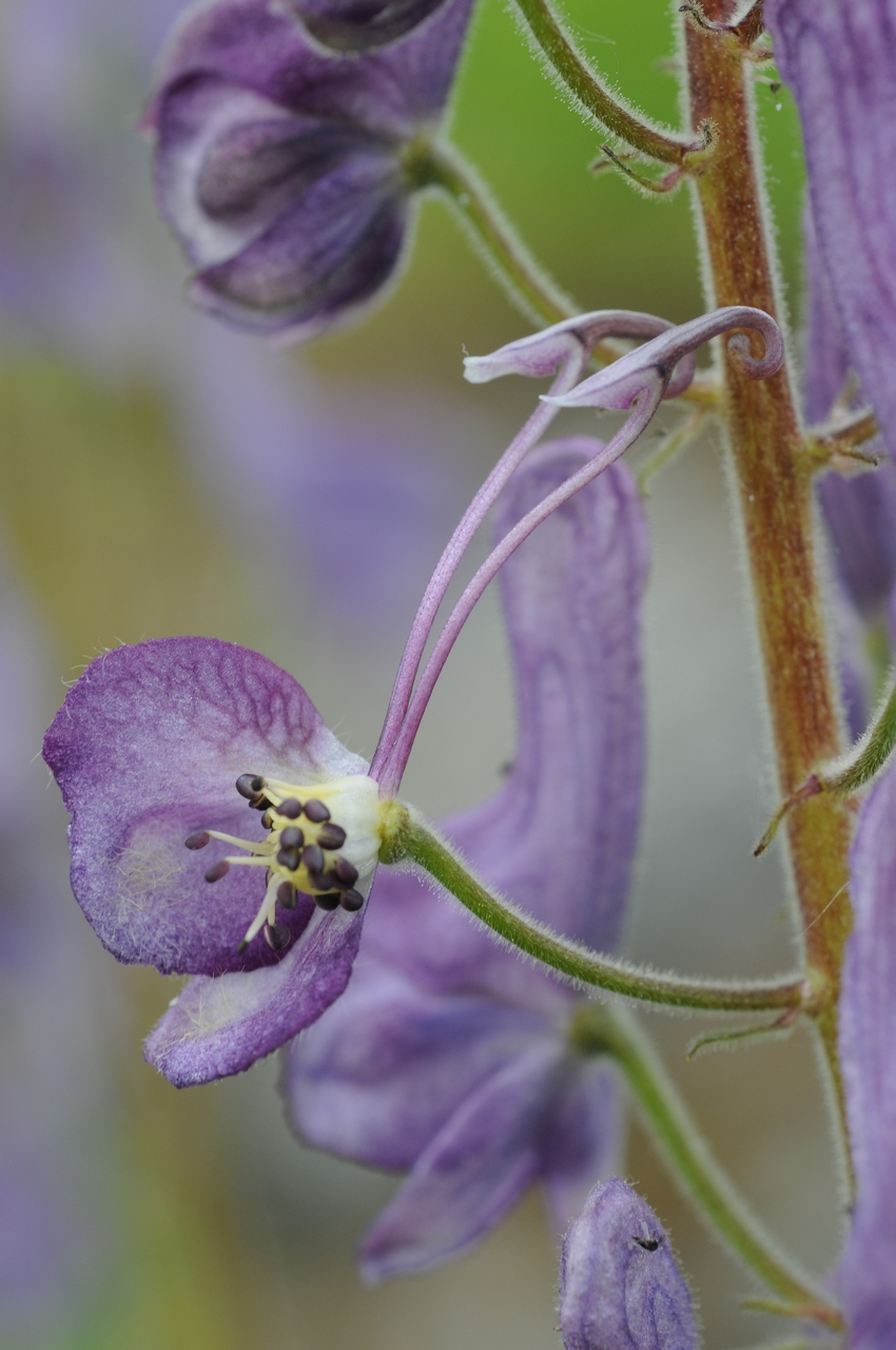 Close-up of a flower of Aconitum septentrionale (A. lycoctonum ssp. septentrionale) with several petals removed to reveal the long, curling nectaries.